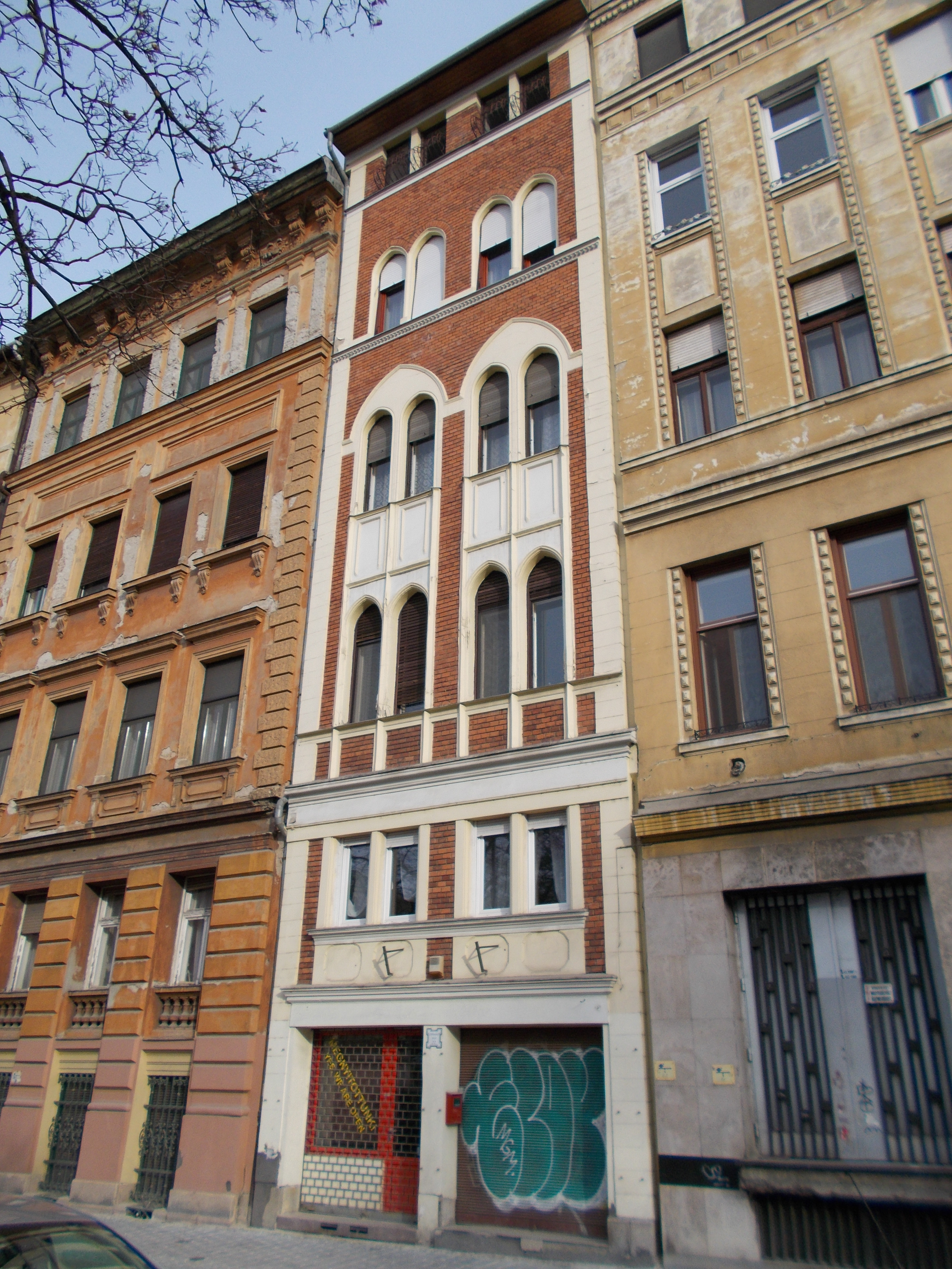 The narrowest house of Buda. Budapest District I., Hungary.